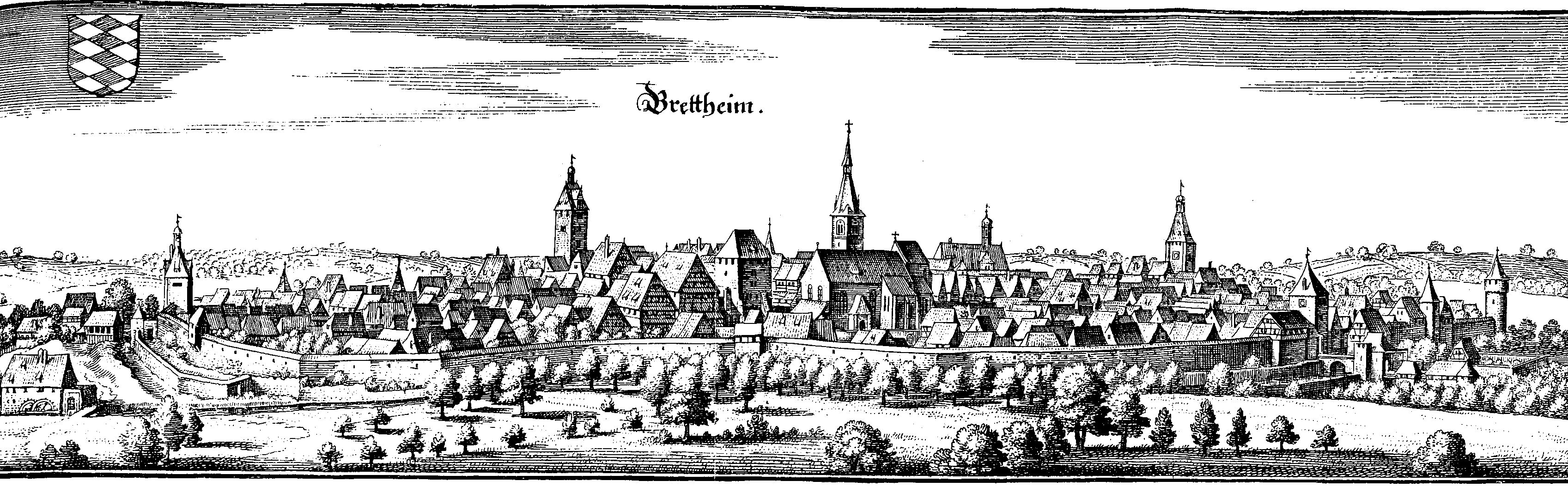 The town of Bretten in Baden-Württemberg, southern Germany in 1645, on an engraving by Matthäus Merian